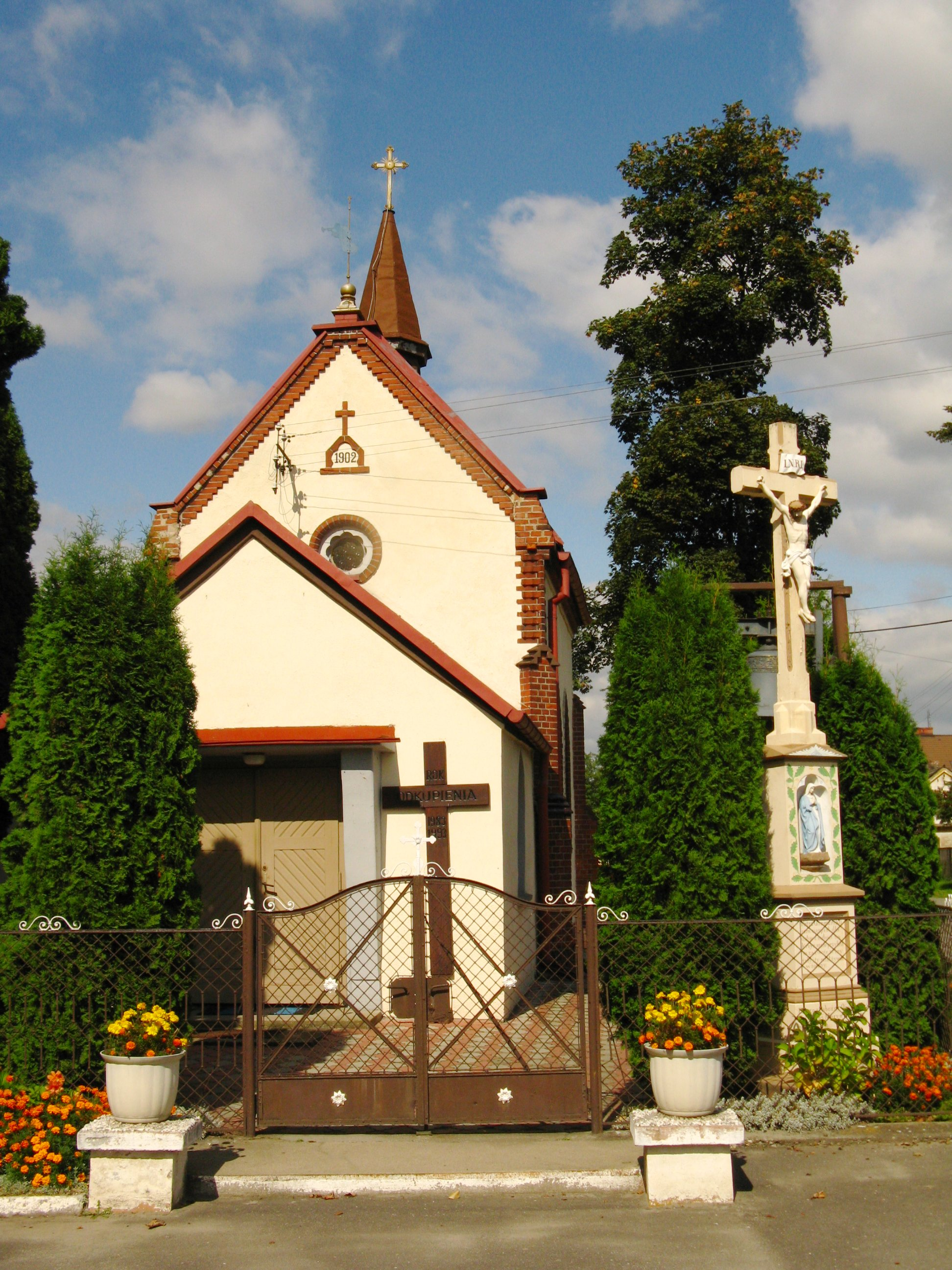 Church in the Polish village Ligota Tworkowska